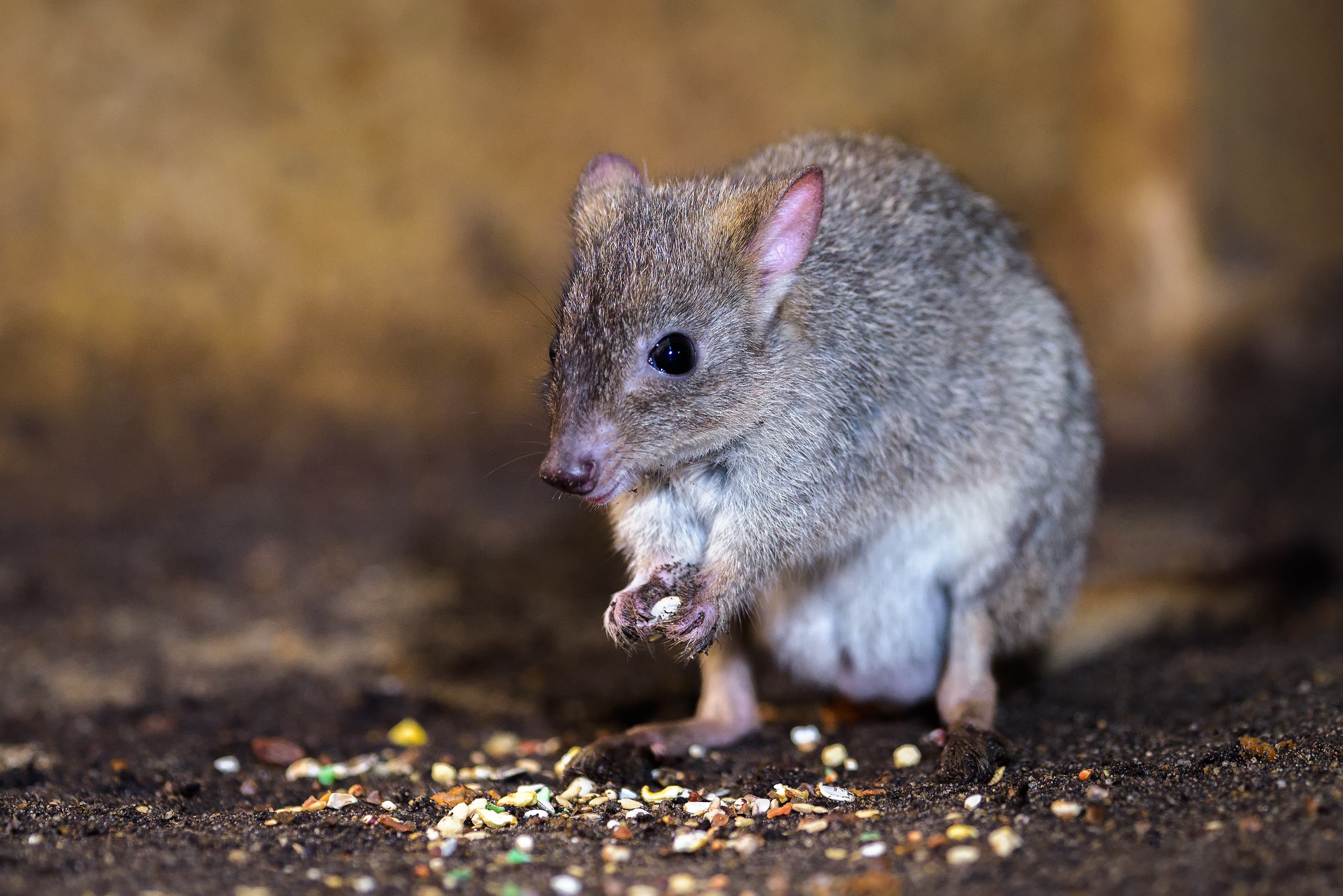 woylie in Prague Zoo